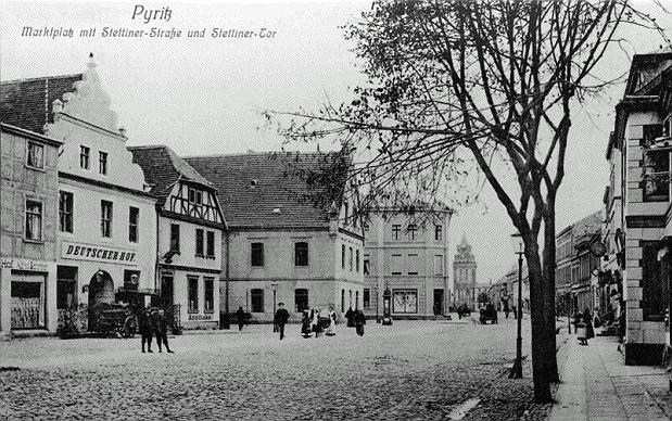 Pyrzyce about 1890-1900.